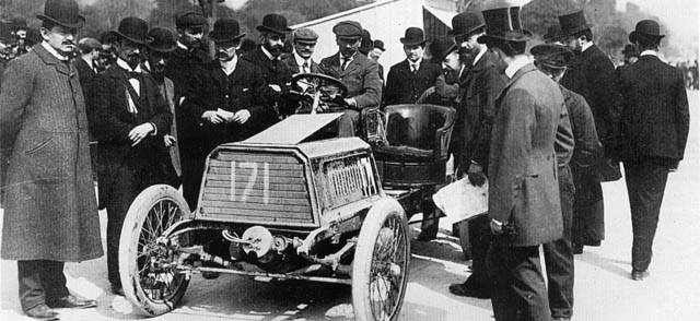 The french racing driver Henri Béconnais (1869-1904).